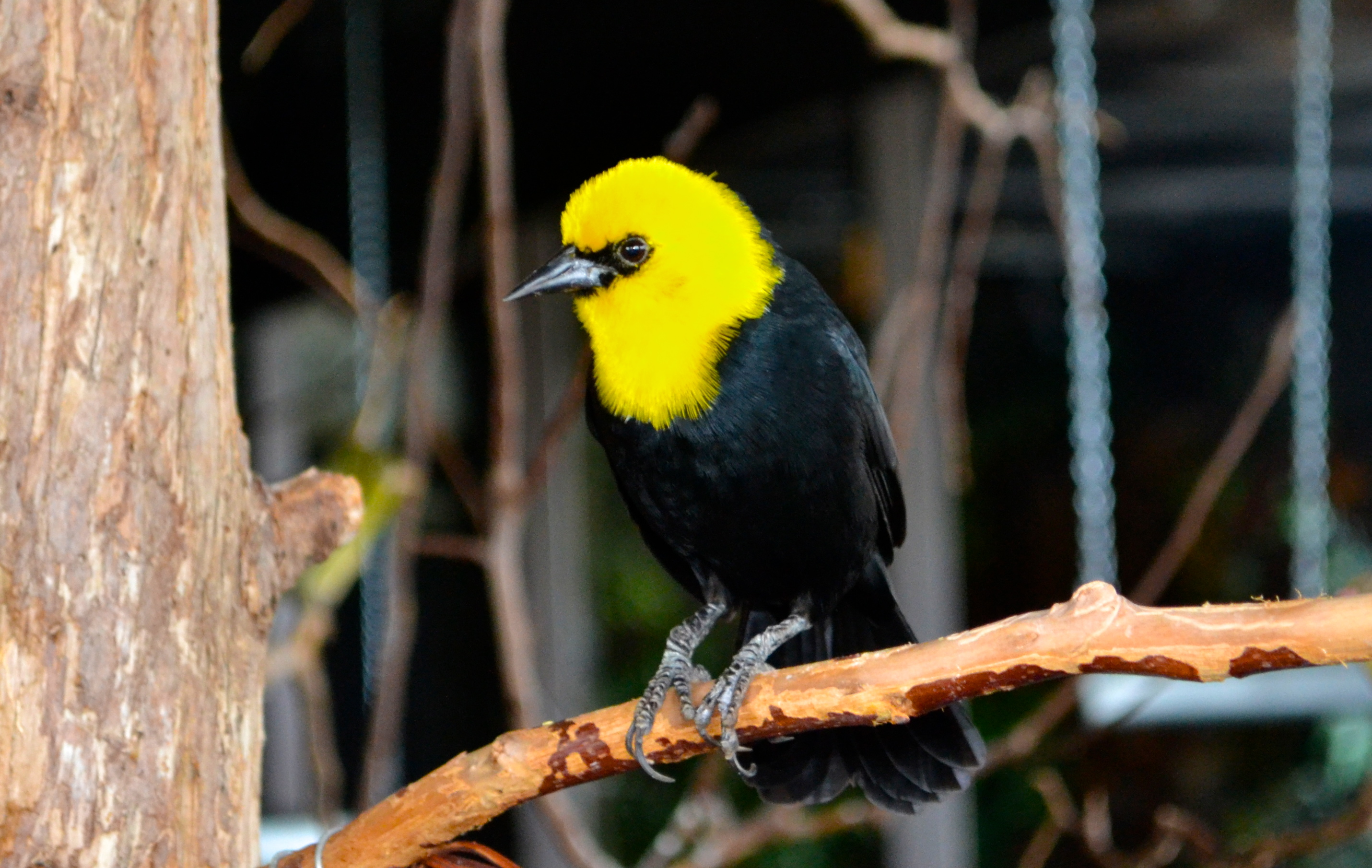 It is found in grassy and brush areas near water in northern South America, and is generally fairly common.